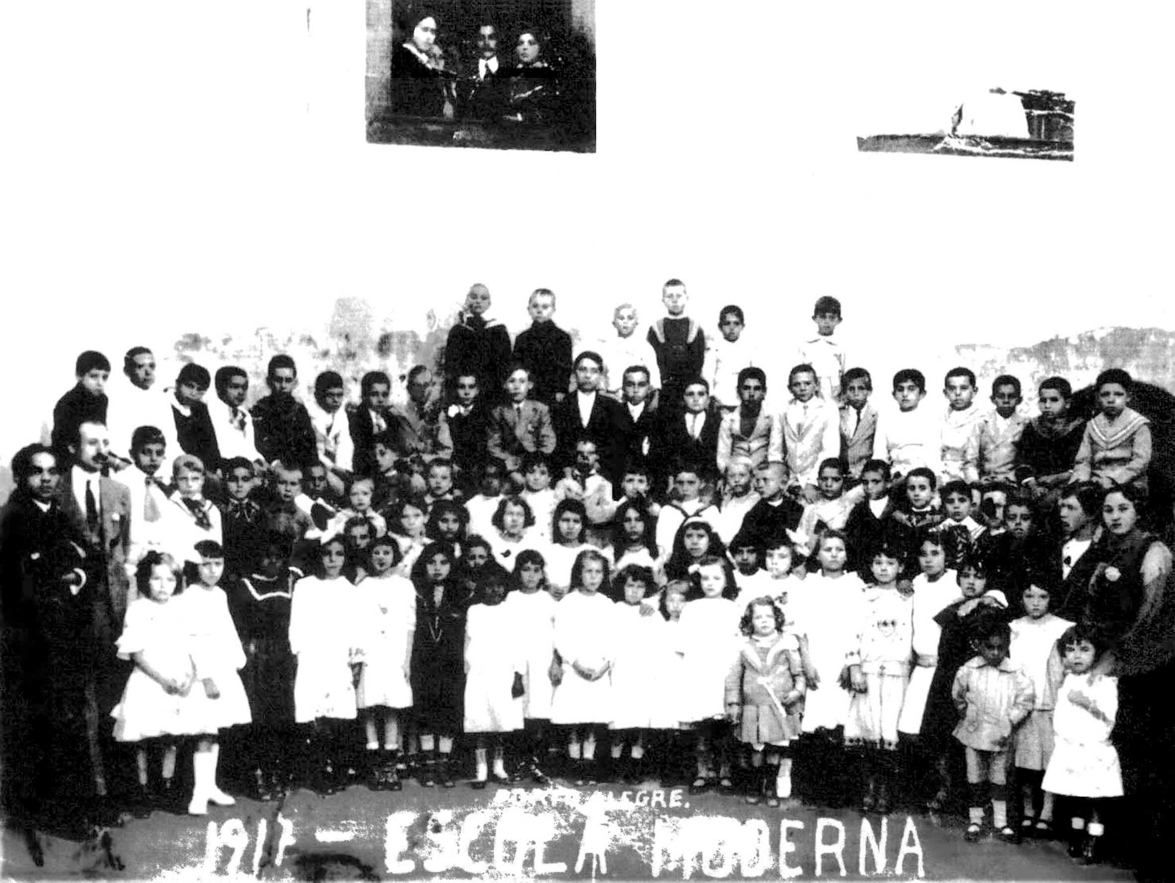 Picture from the Modern School of Porto Alegre in 1917, teachers and students. On the right Zenon de Almeida and Djalma Fettermann. On the left two of the Martins Sisters, proeminent anarchists on southern Brazil.